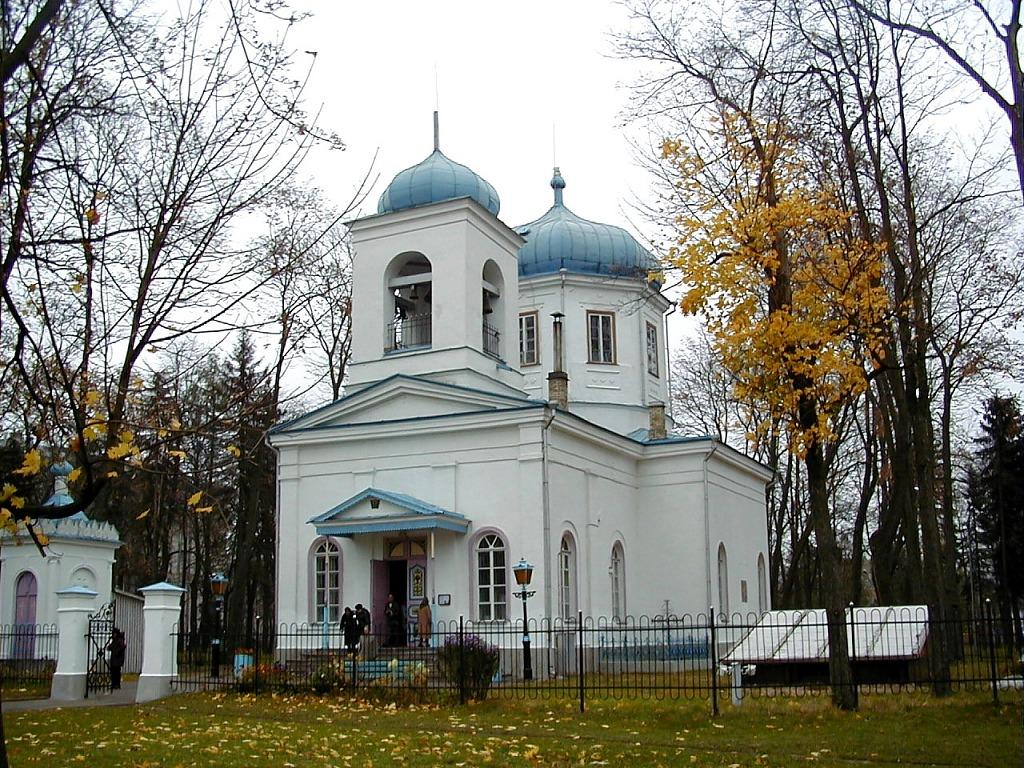 Rēzekne Nativity of the Most Holy Mother of God Orthodox ChurchLatviešu: Rēzeknes Vissvētās Dievmātes piedzimšanas pareizticīgo baznīca